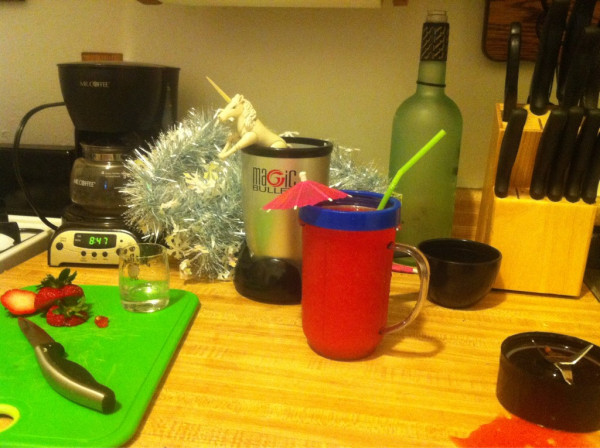 A Magic Bullet blender being used to make strawberry daiquiris.